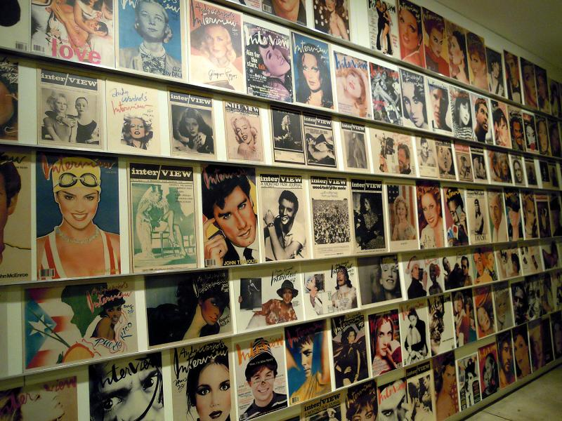 Covers of "Interview" (magazine) — displayed in the Andy Warhal Museum, Pittsburgh, PA.